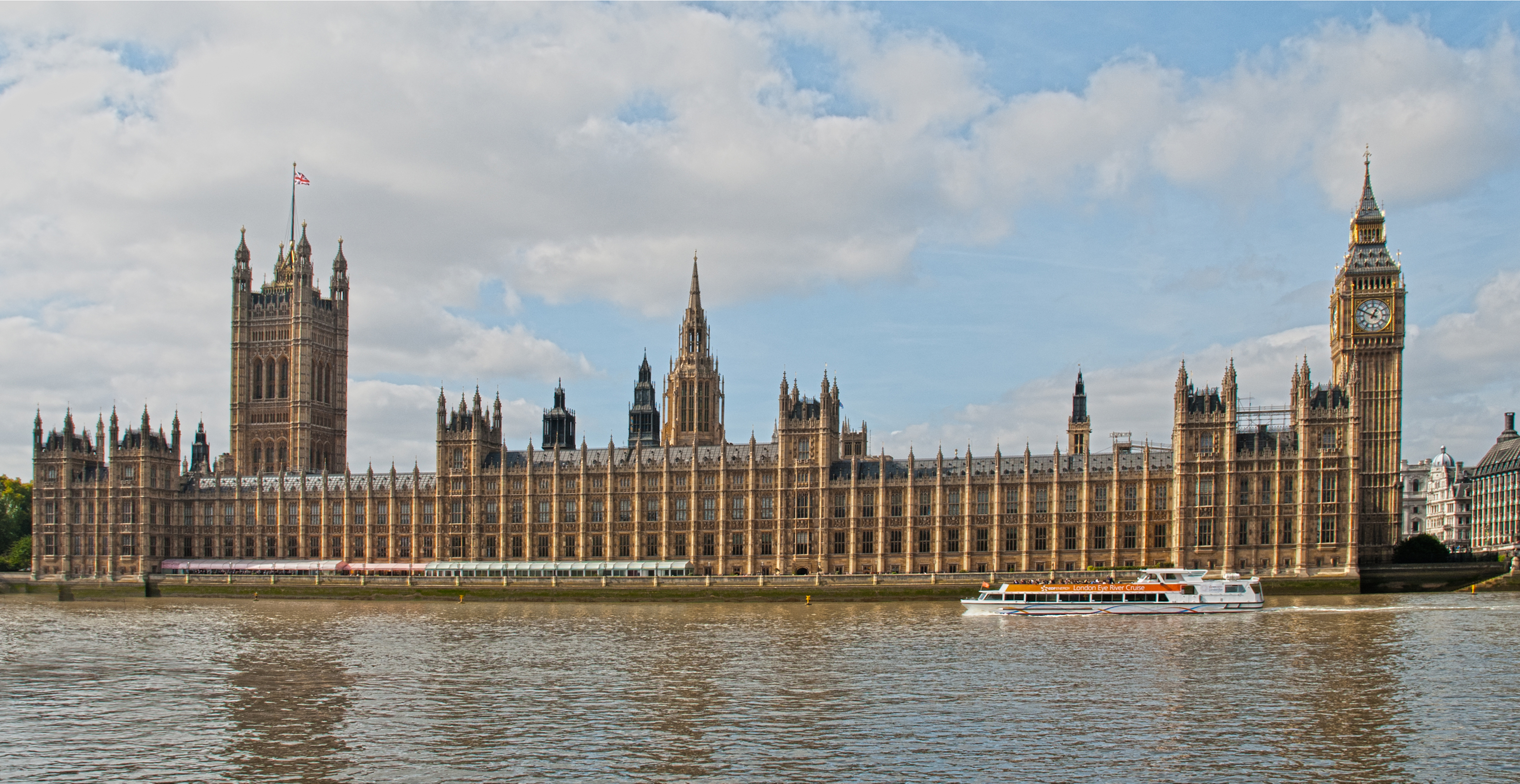 On Explore Highest position: 120 on Friday, July 27, 2012